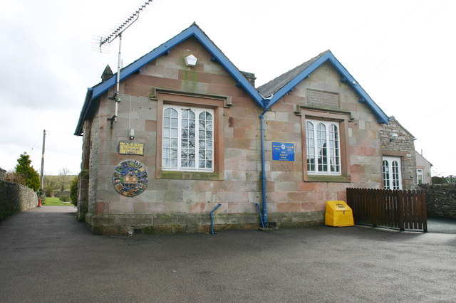 Gt Asby Primary School. The school celebrated its 300th birthday in 1988. It was a comprehensive, in that it educated all the children of the area up to the age of 14. Boys were accommodated on one side, girls the other. Remnants of this division can be seen round the back. Now there is a division between infants and juniors. Pupil numbers in recent years have averaged around 30. Being fairly remote, with the nearest large school at Appleby, closure has been staved off.